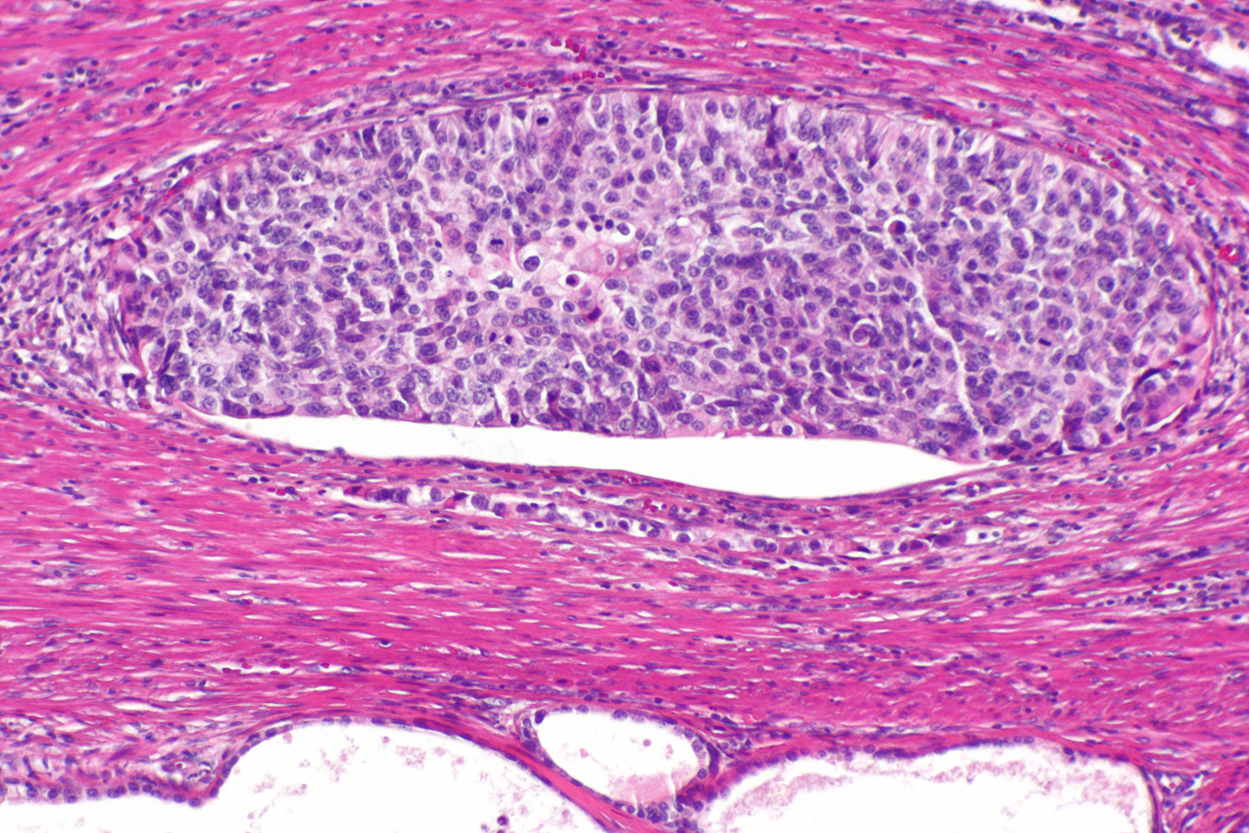 Micrograph of urothelial carcinoma (also urothelial cell carcinoma) within the prostate. H&E stain. Related images UCC in prostate - low mag. UCC in prostate - intermed. mag. UCC in prostate - high mag. UCC in prostate - high mag. UCC in prostate - intermed. mag. UCC in prostate - high mag. UCC in prostate - very high mag. UCC in prostate - intermed. mag. UCC in prostate - high mag. UCC in prostate - very high mag.